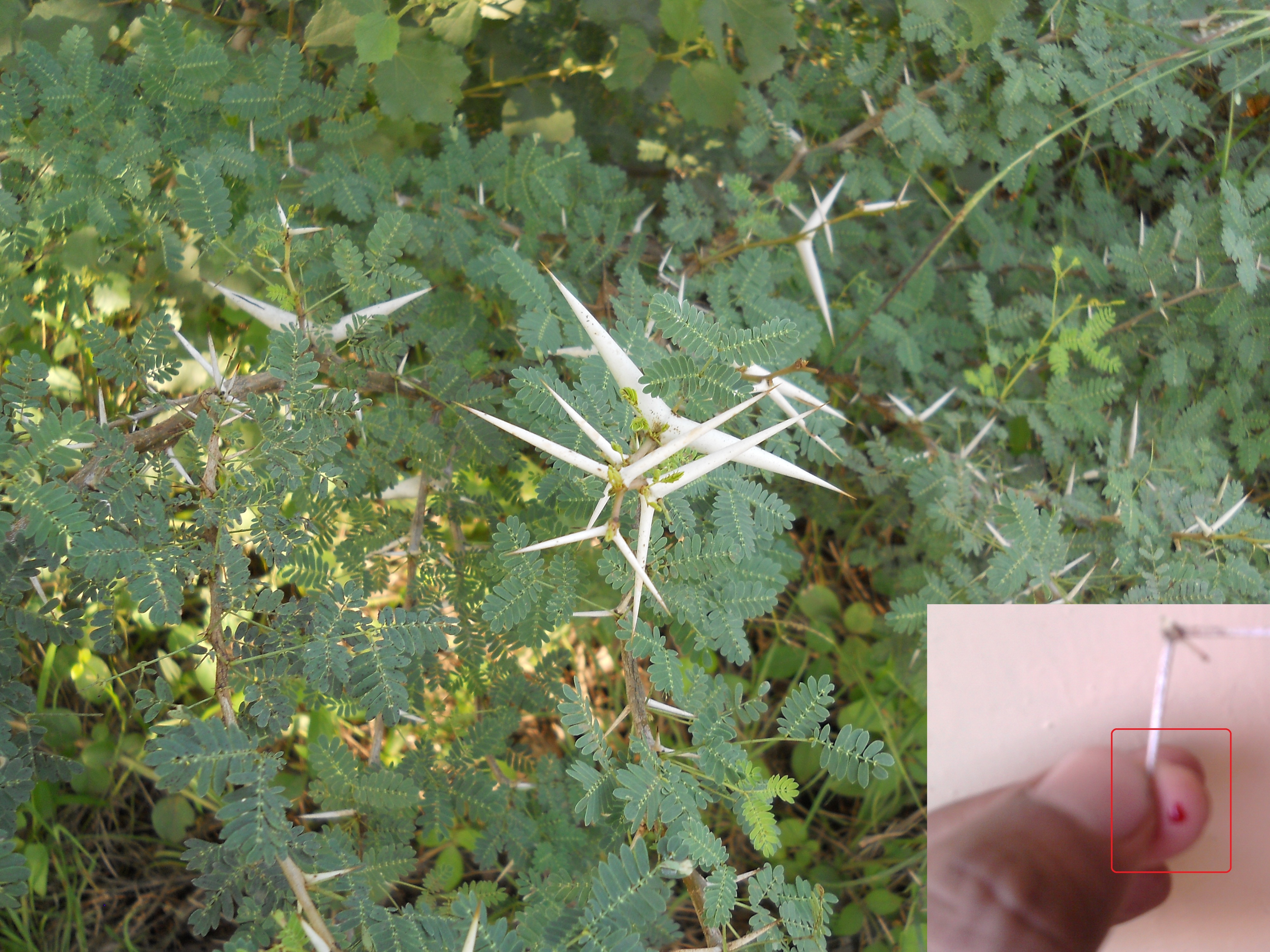 Acacia leucophloea at Nellore district, A.P. India.